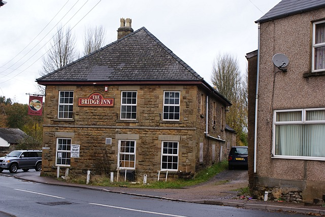 Bridge Inn, Cinderford, Forest of Dean The Bridge Inn stands on the corner of Saint White's road and Valley road at the very South Western corner of Cinderford. It has now closed as an Inn or public house. The alley-like gravelled lane to the right of the Inn was a tram road, sometimes called locally a Dram Road. The roof, it is of a type called 'hipped, signifies that it is an important building - the only other one nearby is that of the one-time Mine Manager which still stands on a little knoll to the North East of the Bridge Inn.